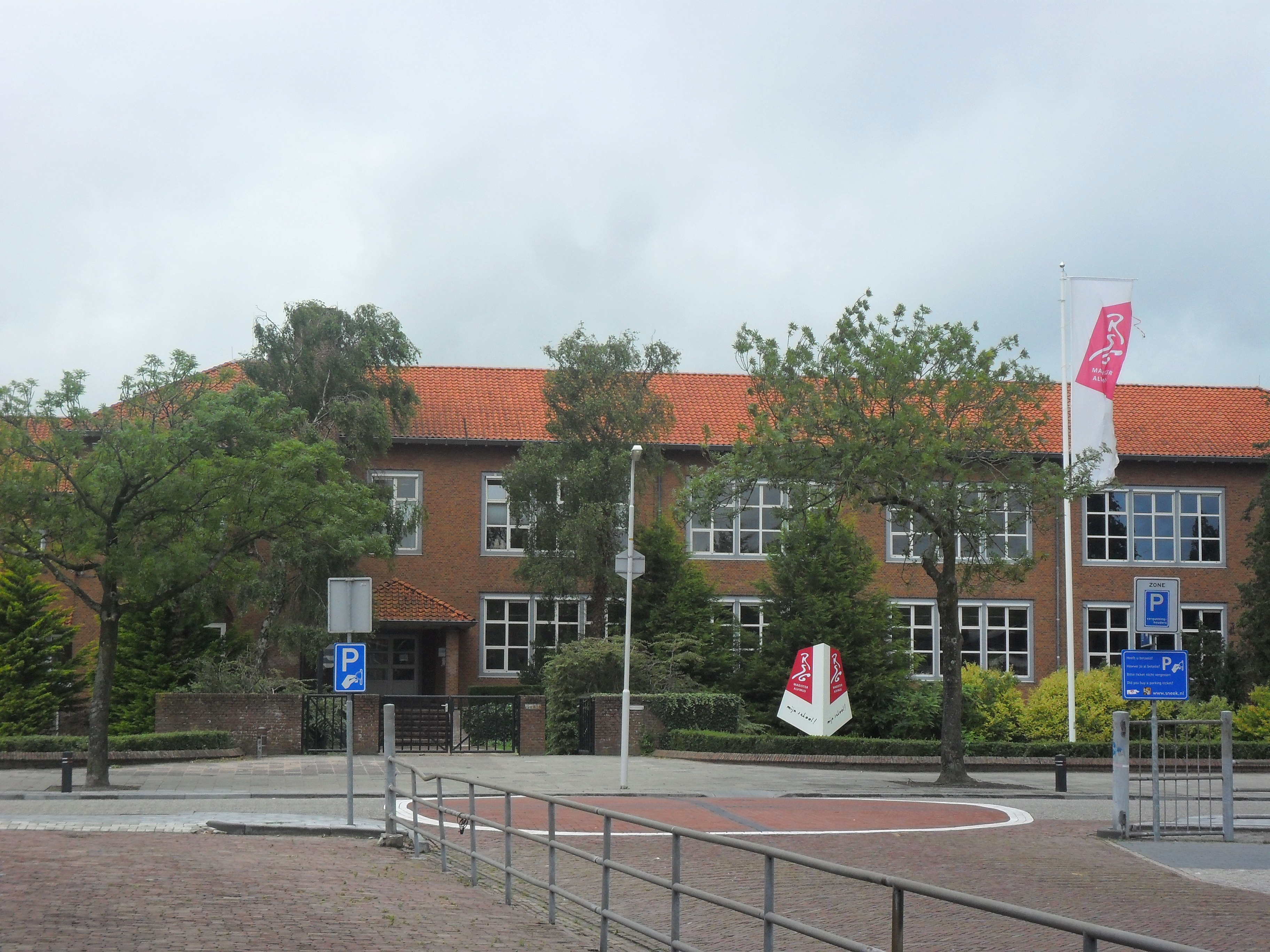 RSG Magister Alvinus highschool Sneek.